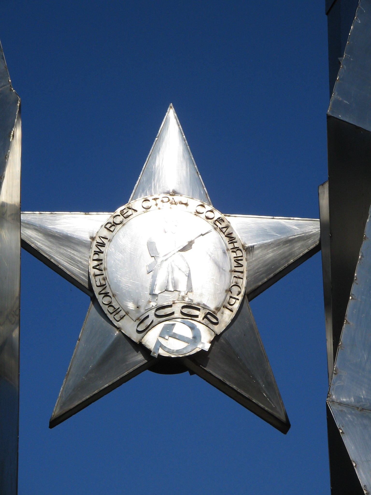 Фрагмент мемориала воинам-интернационалистам (Николаев)